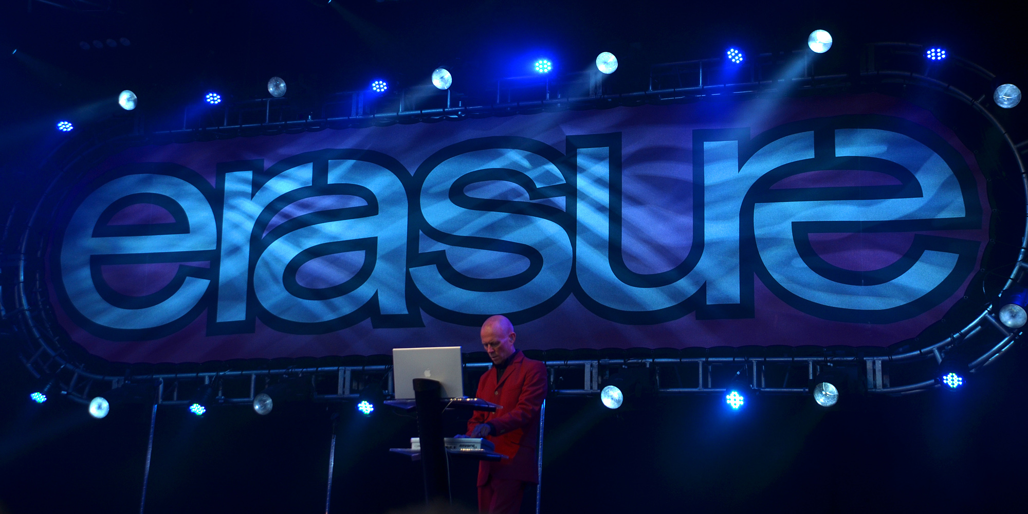 Vince Clarke (band member of Erasure), doing what he does best! Erasure performed at Delamere Forest (near Chester), England, UK on 1 July 2011. Erasure were supported by the four-piece Foreign Office. Erasure were on form, they kicked off with "Hideaway", and just sang hit after hit, "Oh L'Amour", "Sometimes", "Victim of Love", "Love to Hate You", "Breathe", "Knocking on your Door", "Chains of Love", "Ship of Fools" and many more.